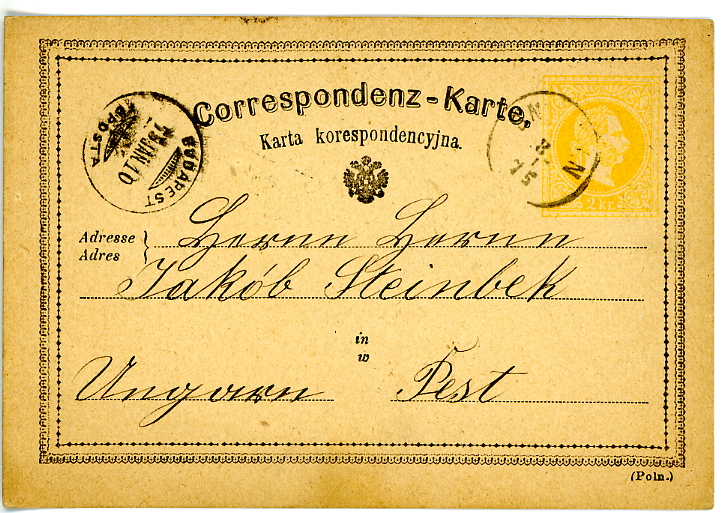 Austrian KK 2 kreuzer postal card, Polish version, sent to Pest from SNIATYN (Galicia, Ukraine) in 1875. Arrival postmark BUDAPEST.